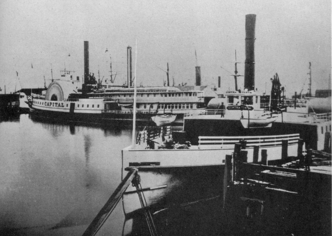 Sidewheelers Capital and Contra Costa (considered a ferry) at the Davis Street Landing in San Francisco, circa 1870.